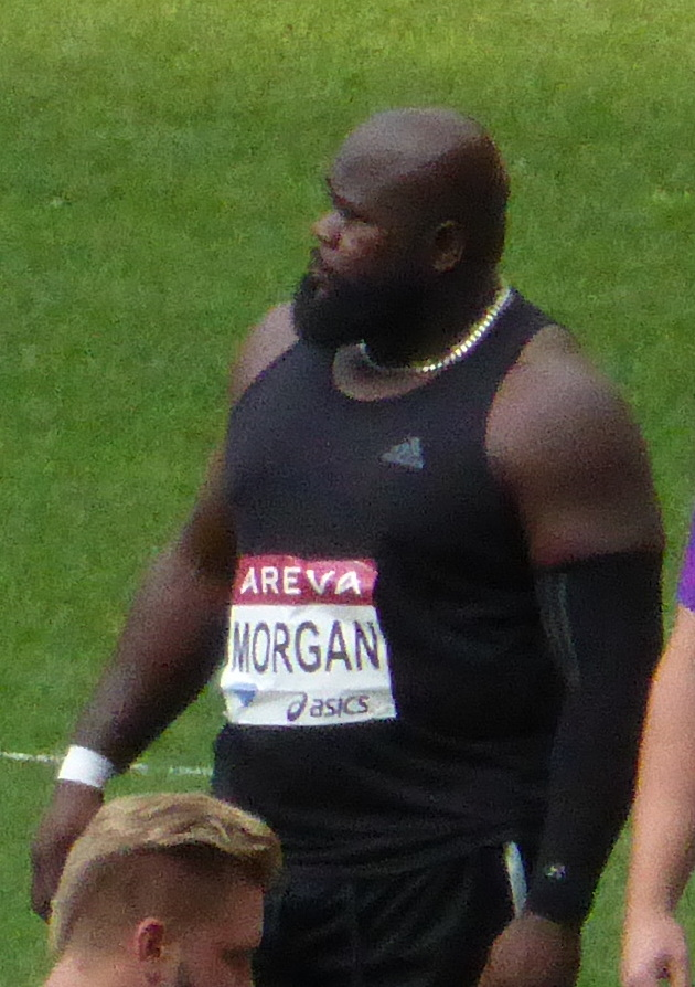 2015 Meeting Areva, Stade de France, Paris.